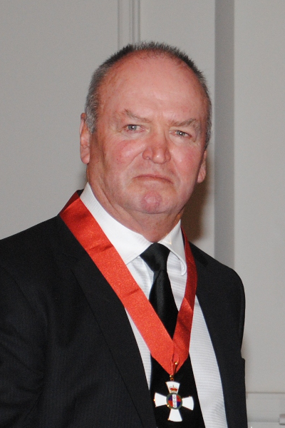 Graham Henry receiving the knighthood in 2012 by the Governor-General of New Zealand